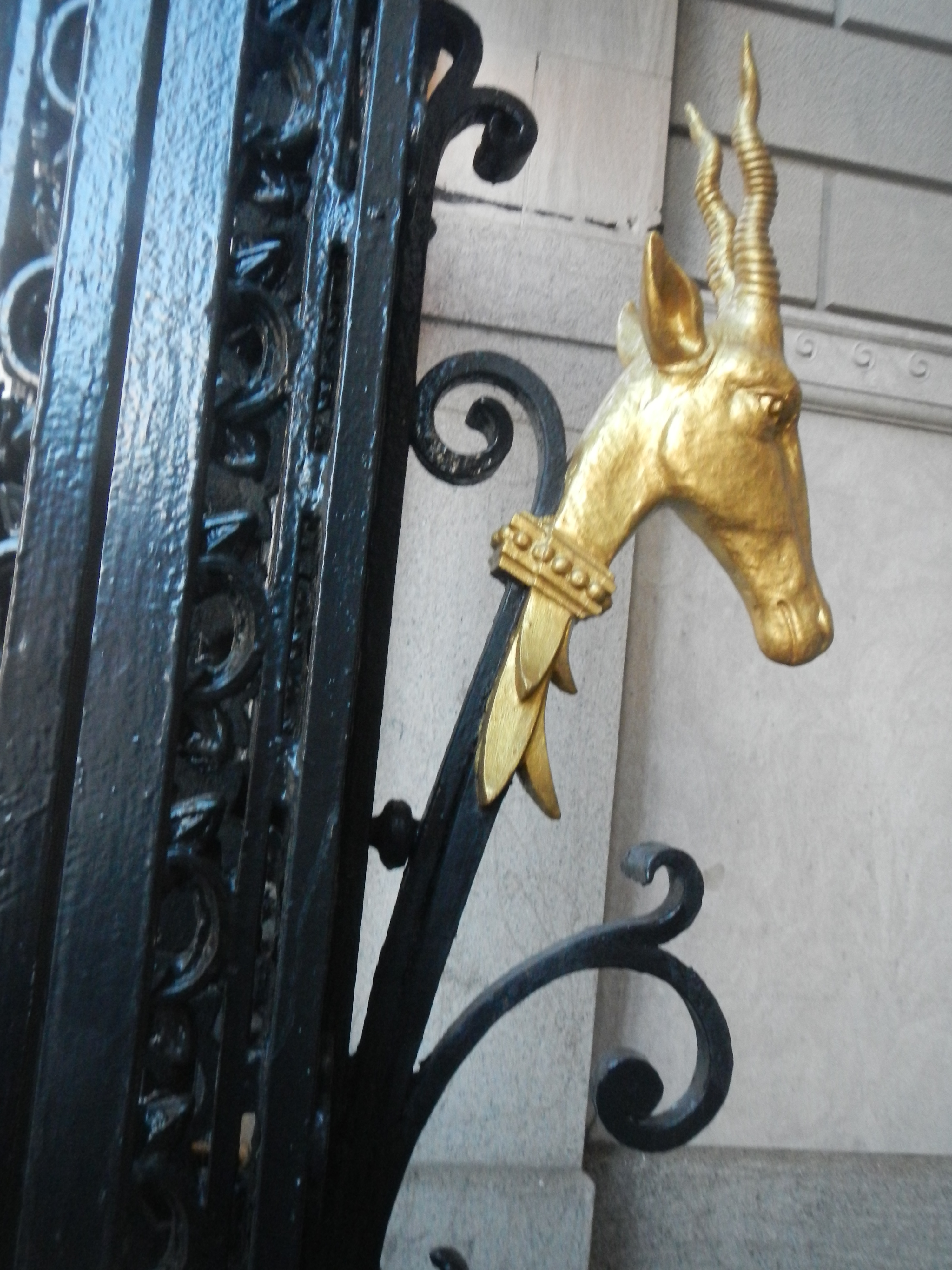 Looking south at animal head decorating inside of southern gate of eastern pair.